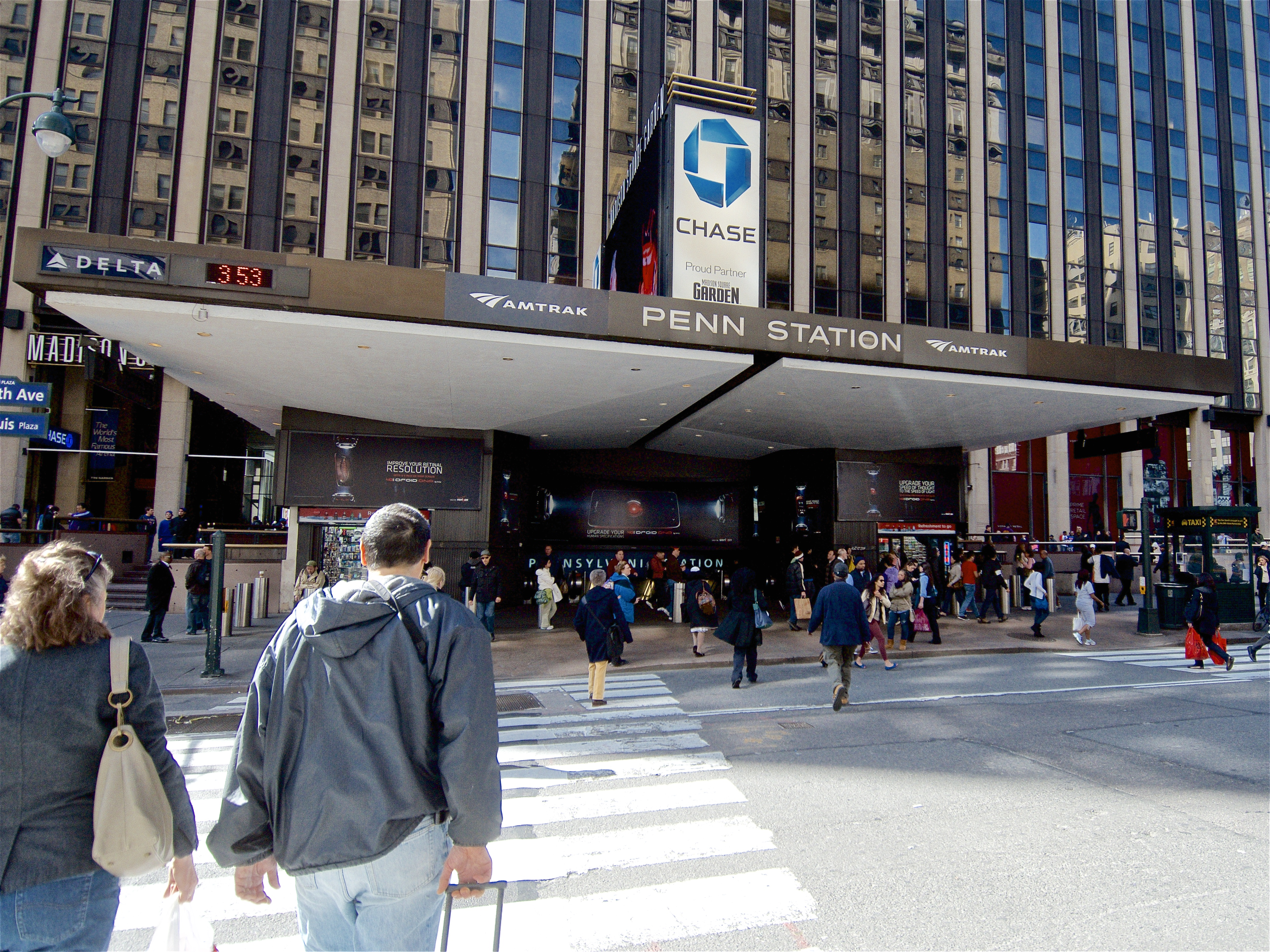 Travelers walking into the Seventh Avenue entrance to New York City's Pennsylvania Station, April 2013.